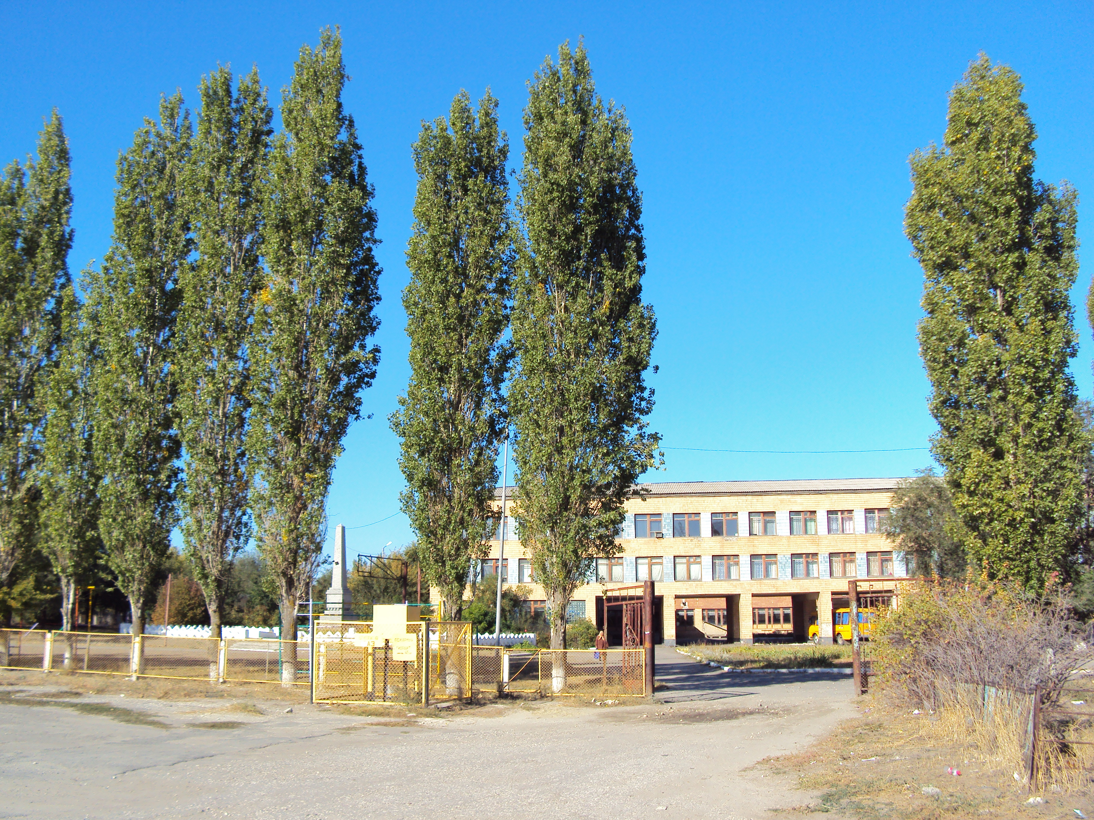 Secondary school № 1 in Serafimovich.